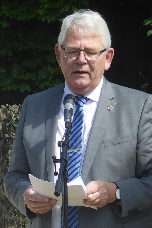 The mayor of Rødovre in Copenhagen, Erik Nielsen, speaking at Krigshistorisk Festival (War Historical Festival).